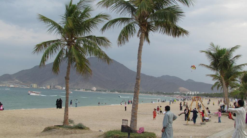 a beach scene from khorfukkan,in sharjha emirates